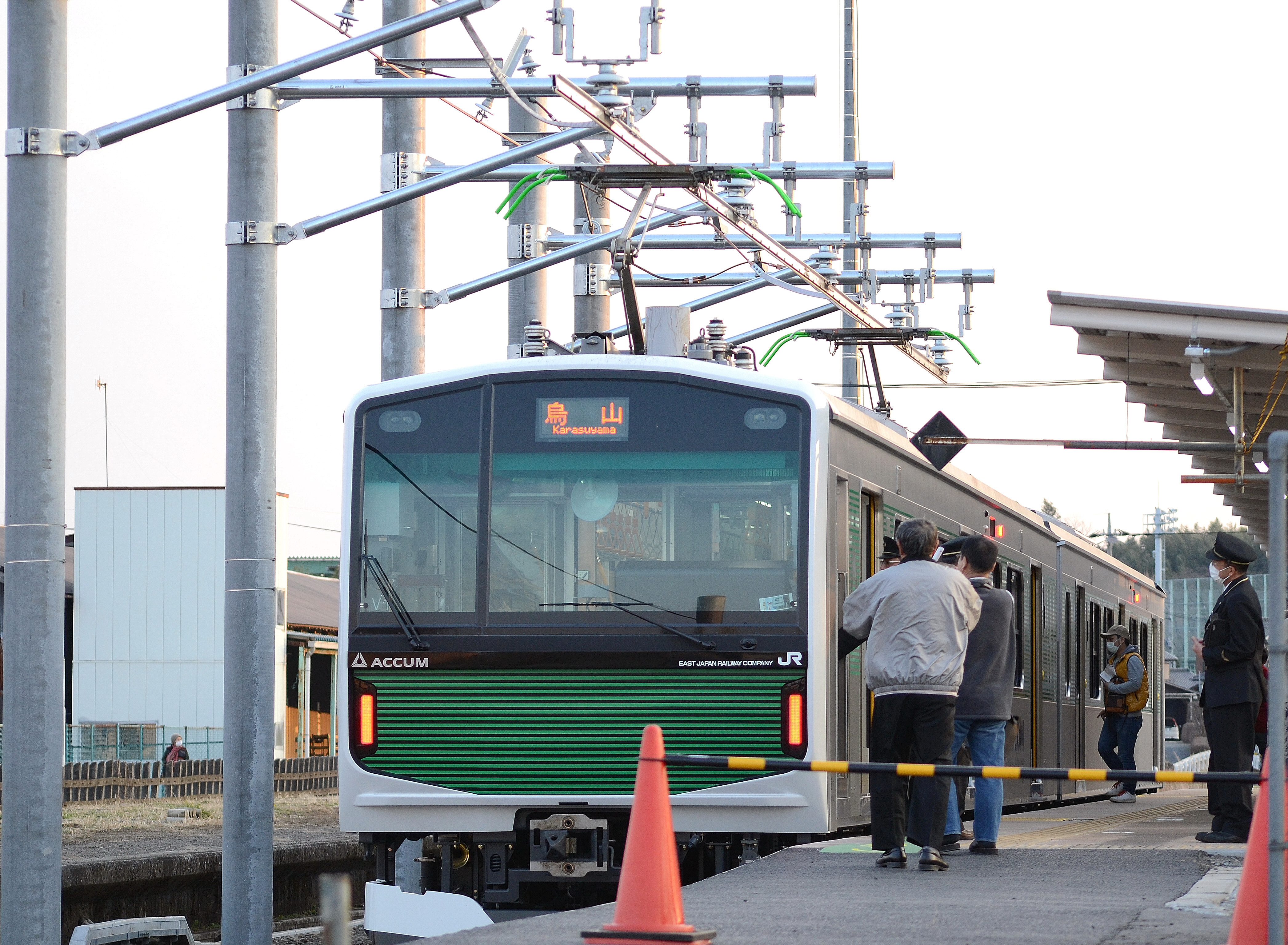 JR East EV-E301 series battery EMU set V1 being recharged at a special overhead recharging facility at Karasuyama Station on the Karasuyama Line